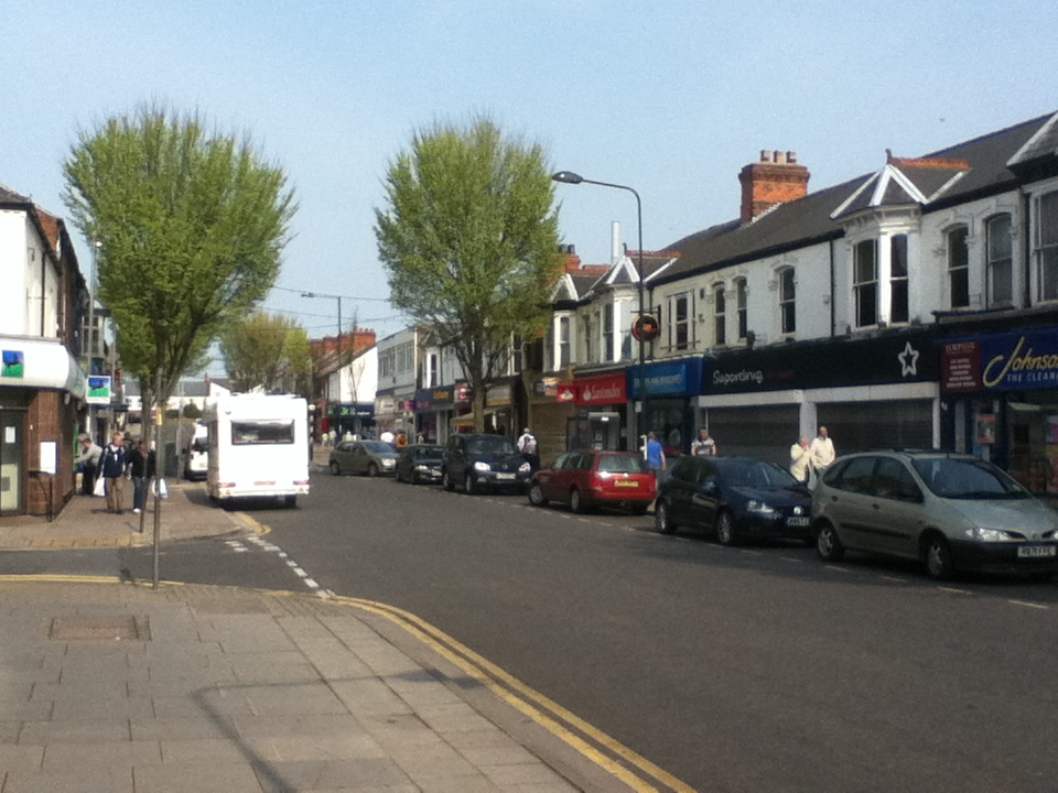 Cleethorpes Town Center on Easter Sunday 2011!